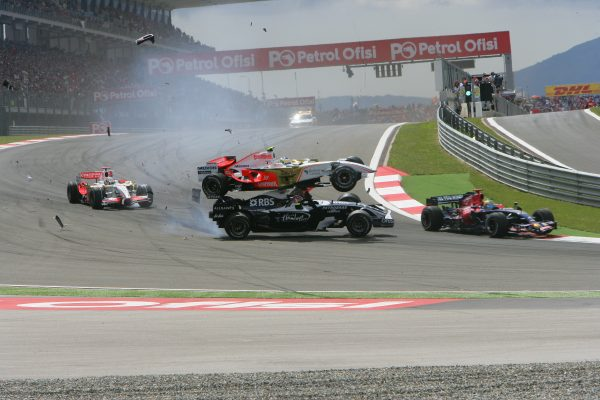 Giancarlo Fisichella (Force India) flying over Kazuki Nakajima (Williams F1) in the first corner at the start of the Turkish Grand Prix in 2008